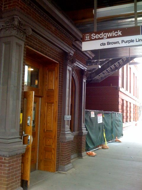 The entrance to the Sedgwick CTA station after the Brown Line reconstruction.